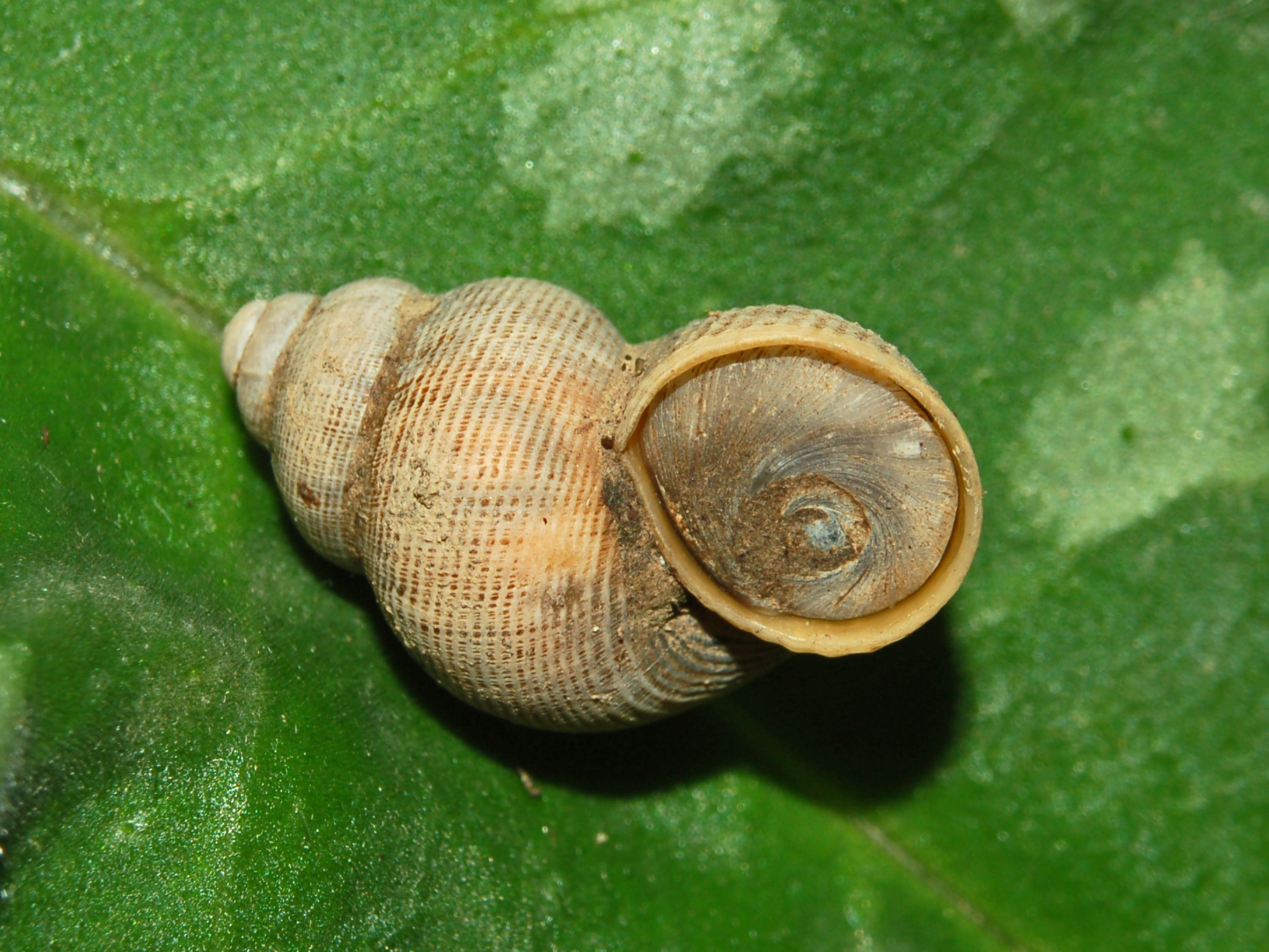 Shell of "Pomatias elegans" showing the operculum with the eccentric nucleus. Val Noci, Genova, Italy